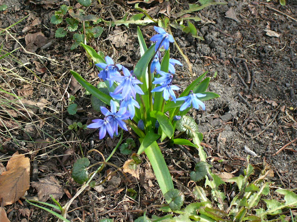 Othocallis siberica